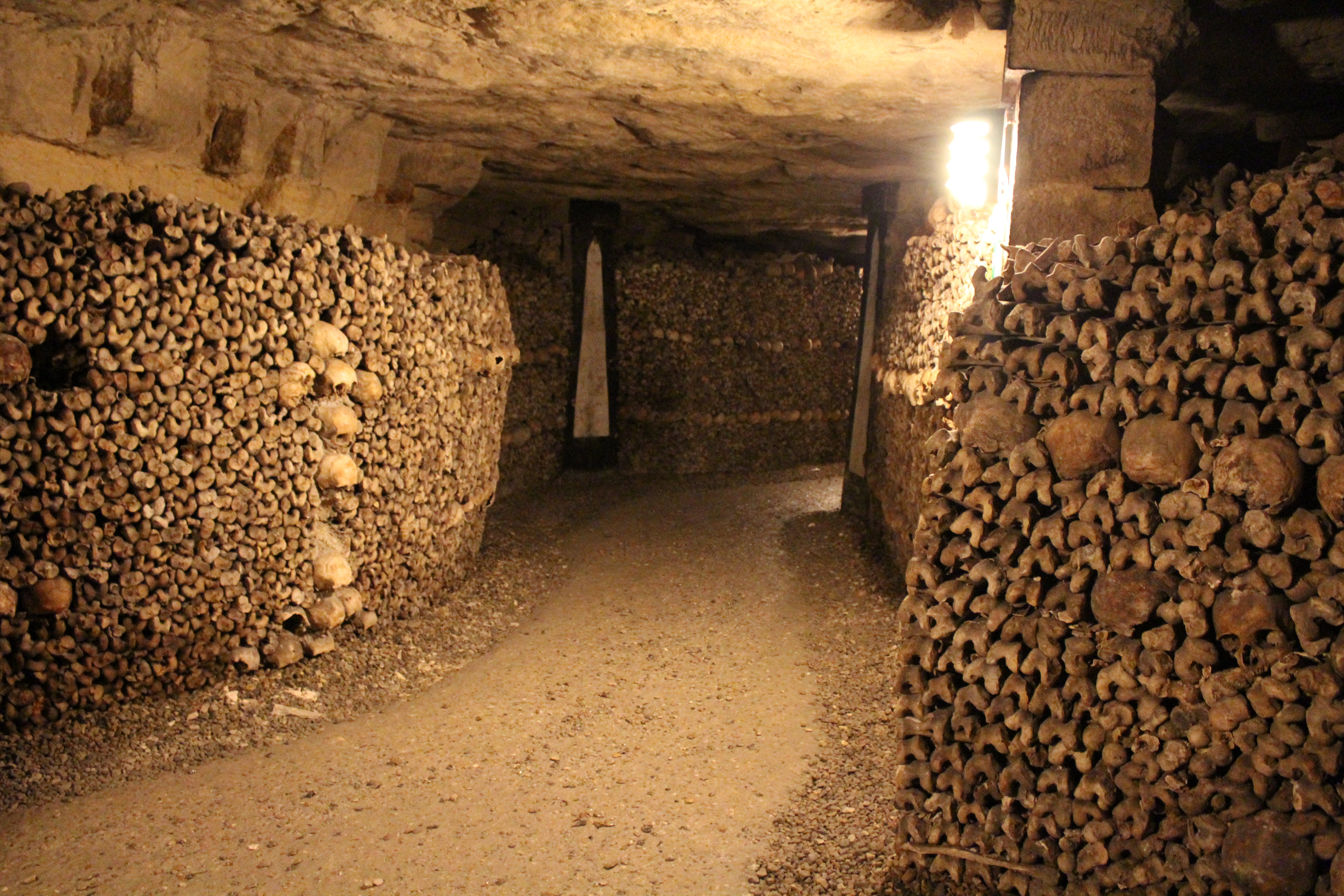 Catacombs of Paris